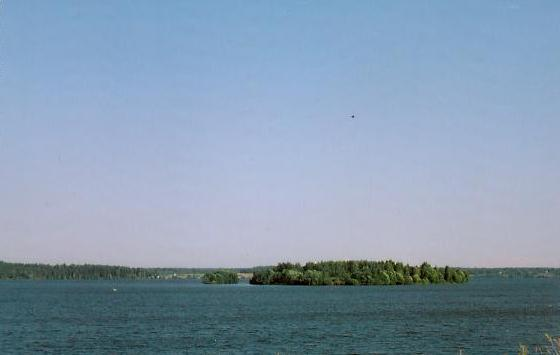 The place of former Kaljazin Troitsky Makariev Monastery